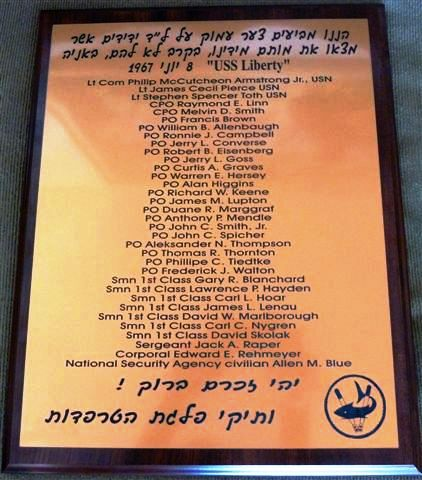 Memory list of the Liberty Incident casualties. Posted in the IN Museum by veterans of MTB Squadron.